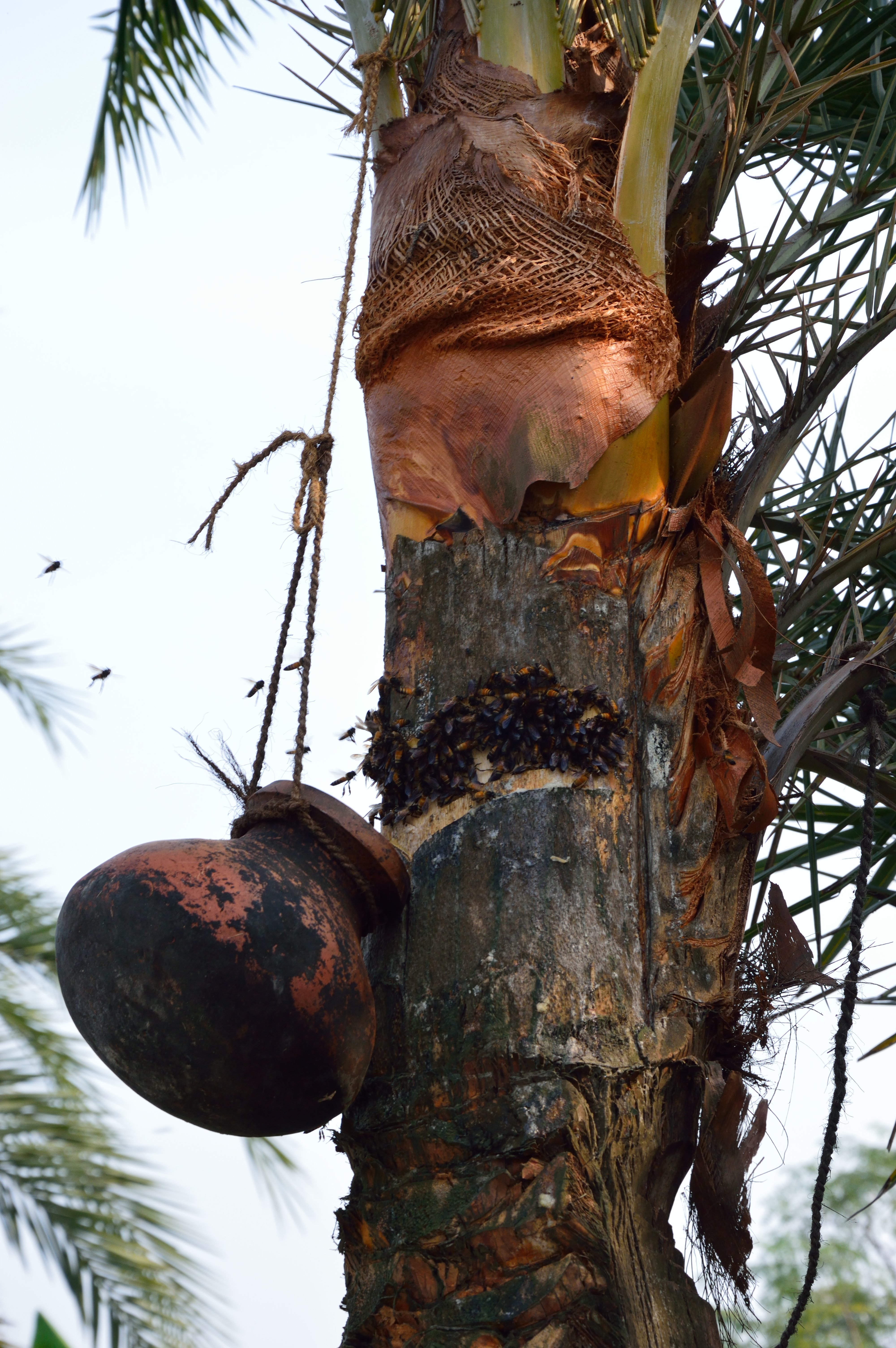 Photographed at Taki, West Bengal. (bn: Khejur Rash)